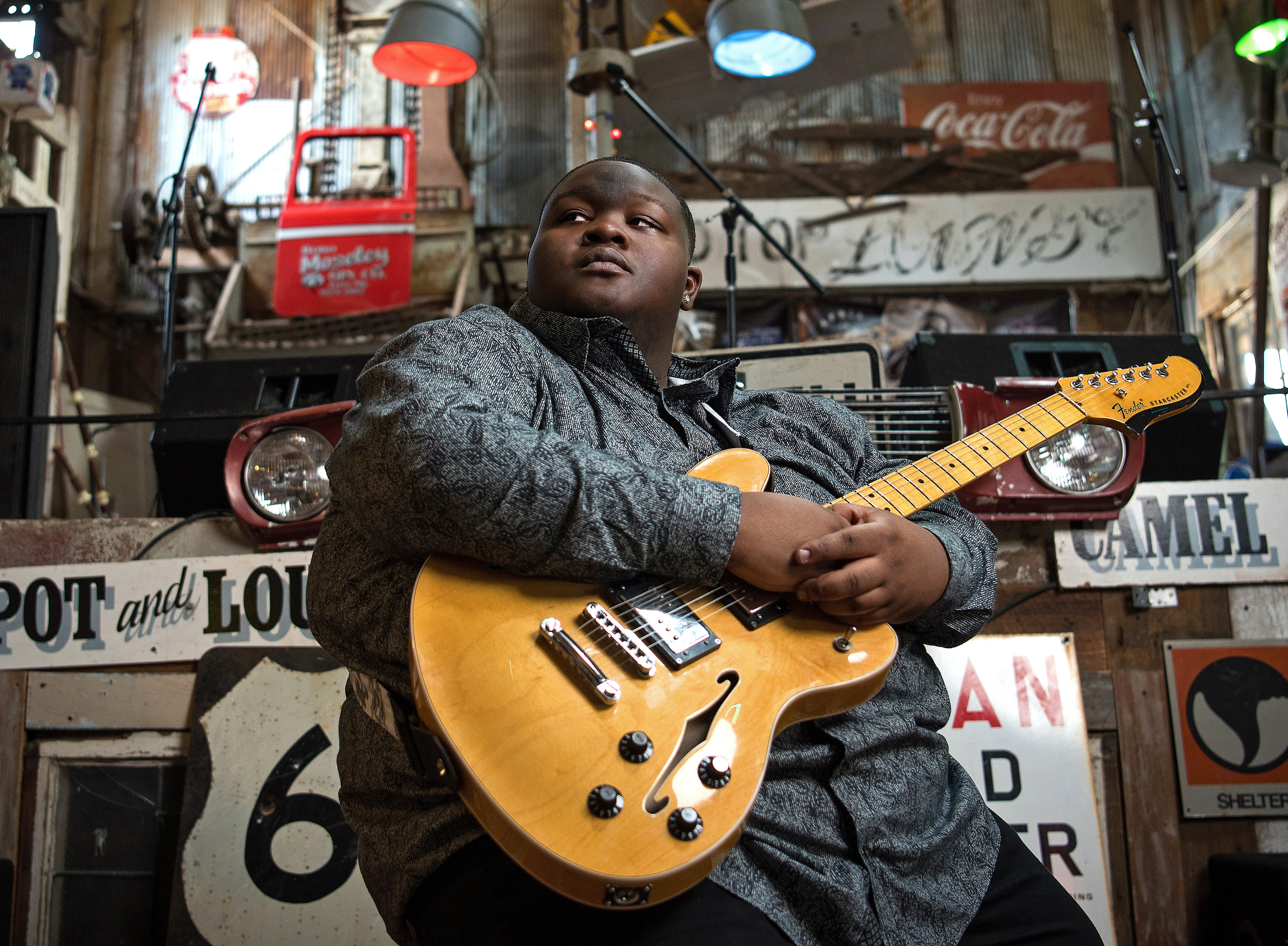 Blues artist Christone "Kingfish" Ingram, photographed by Rory Doyle.